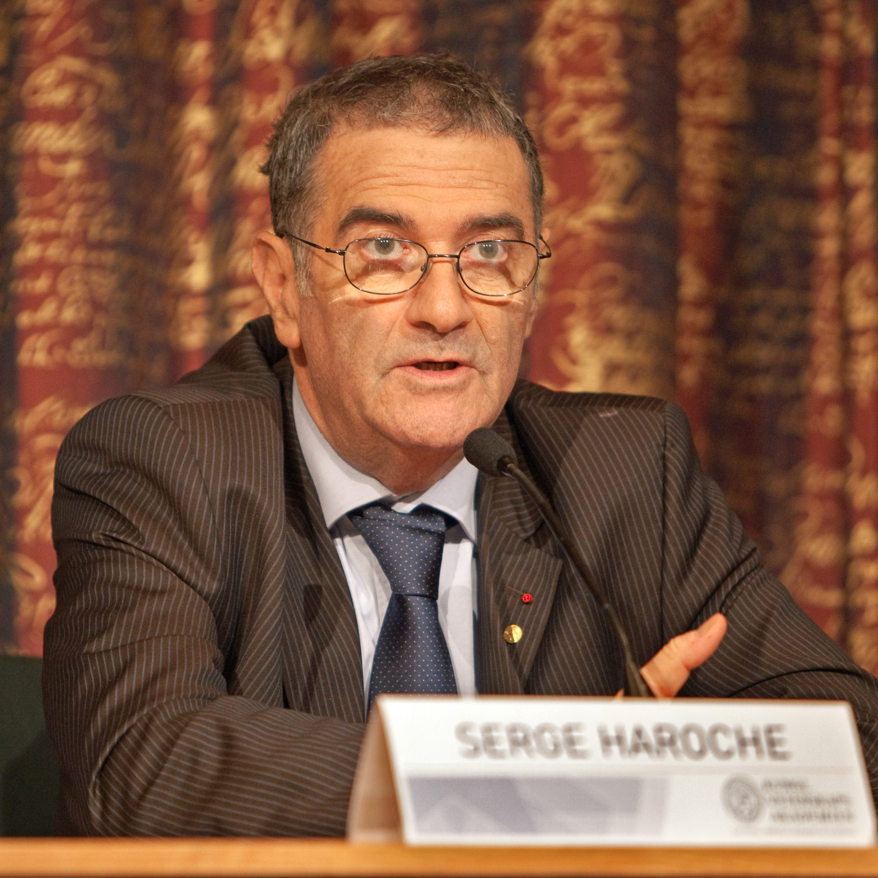 Serge Haroche, Nobel Prize winner in physics 2012